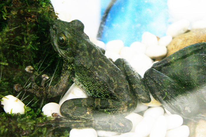 Staurois afghanus frogs (Thai: กบติดผา) at the 24th Pramong Nomklao fish show event at the Future Park Rangsit, Thailand, in June 2012. Picture taken by myself.